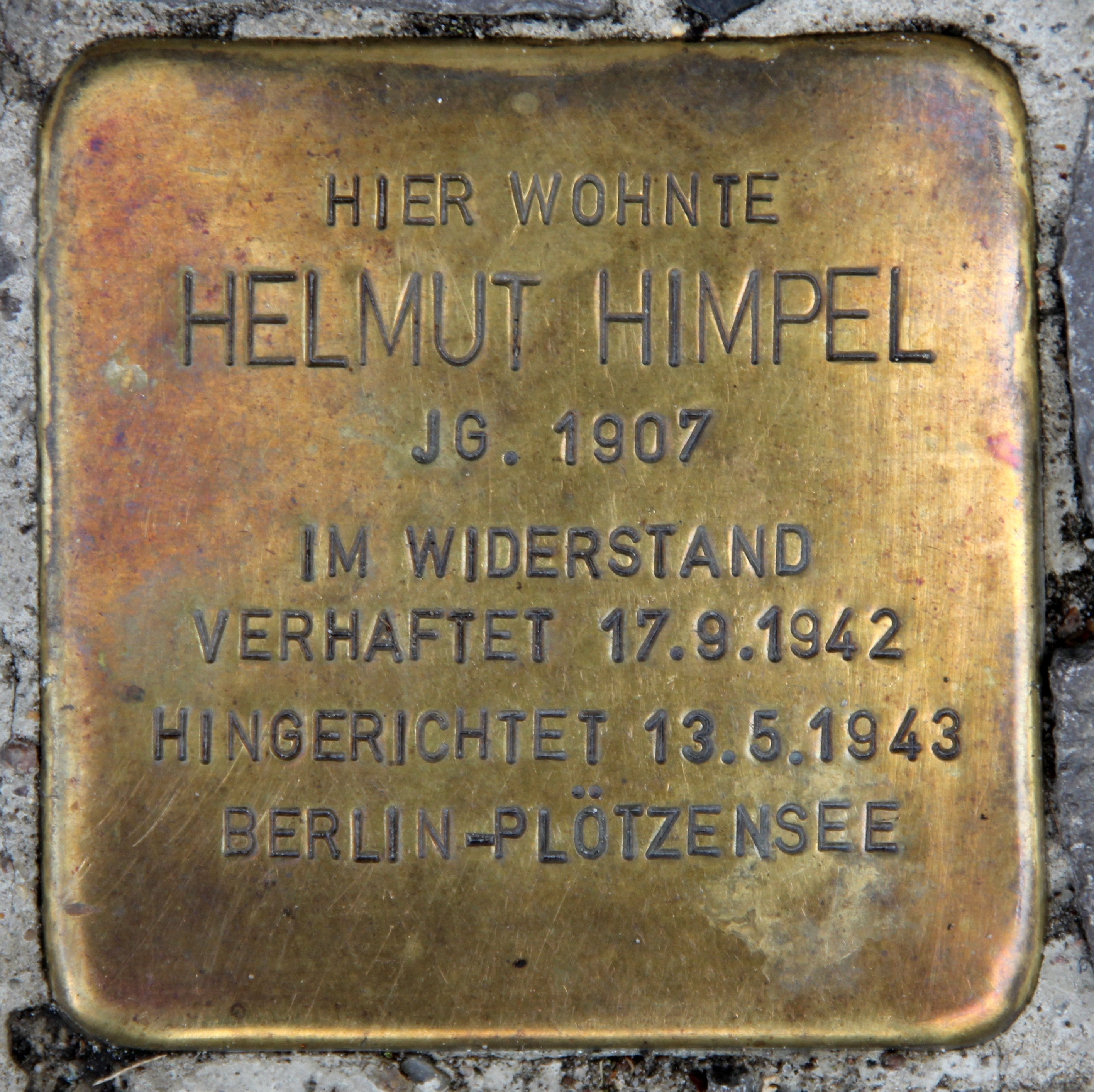 "Stolperstein" (stumbling block), Helmut Himpel, Lietzenburger Straße 72, Berlin-Charlottenburg, Germany